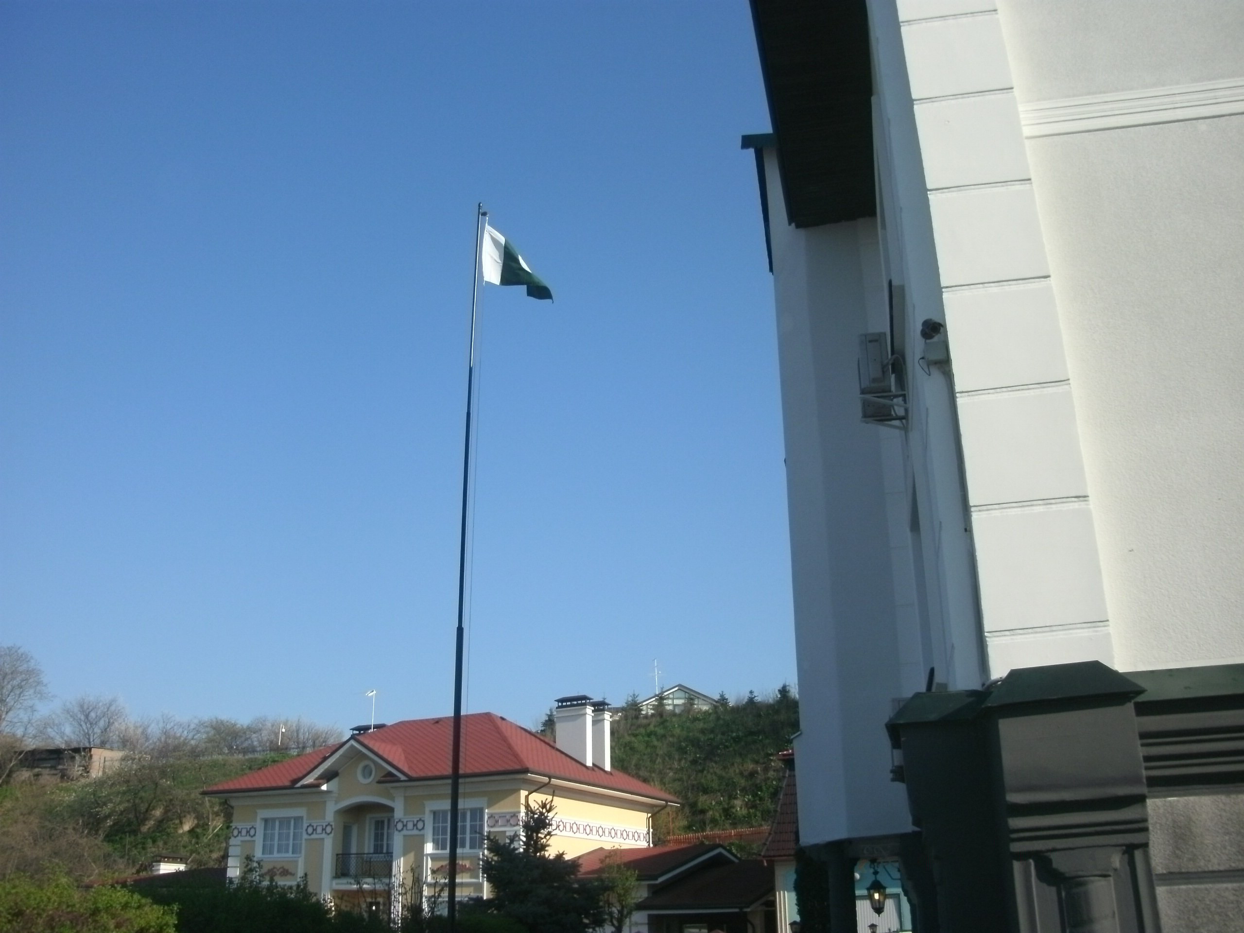 Pakistan Embassy front View